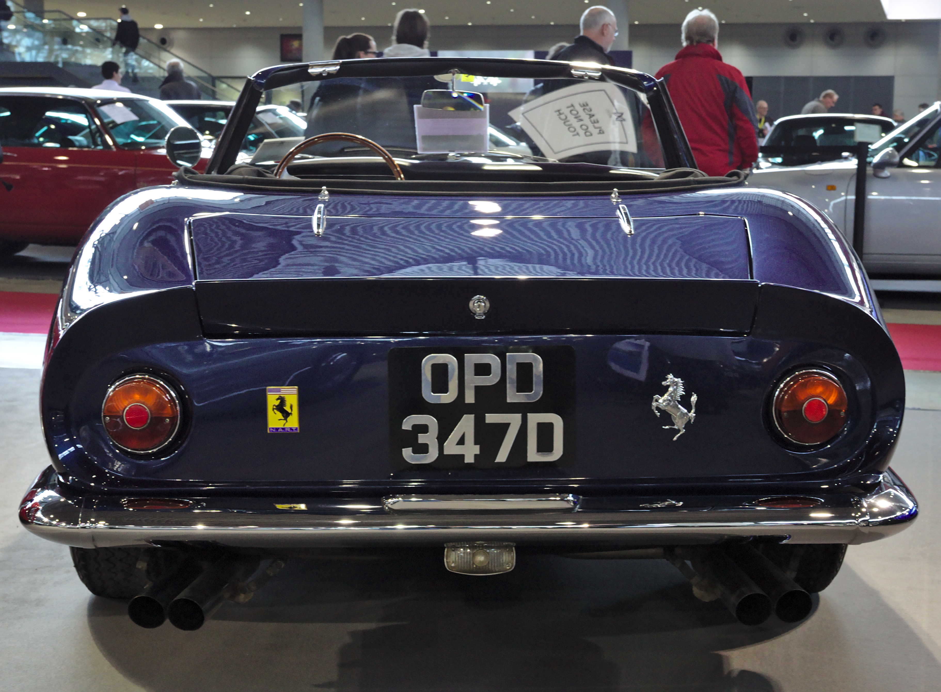 Ferrari 275 GTB (converted ca 1990 to Nart Spyder) at Retro Classics 2018